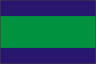 Flag of Vinni vald, Estonia